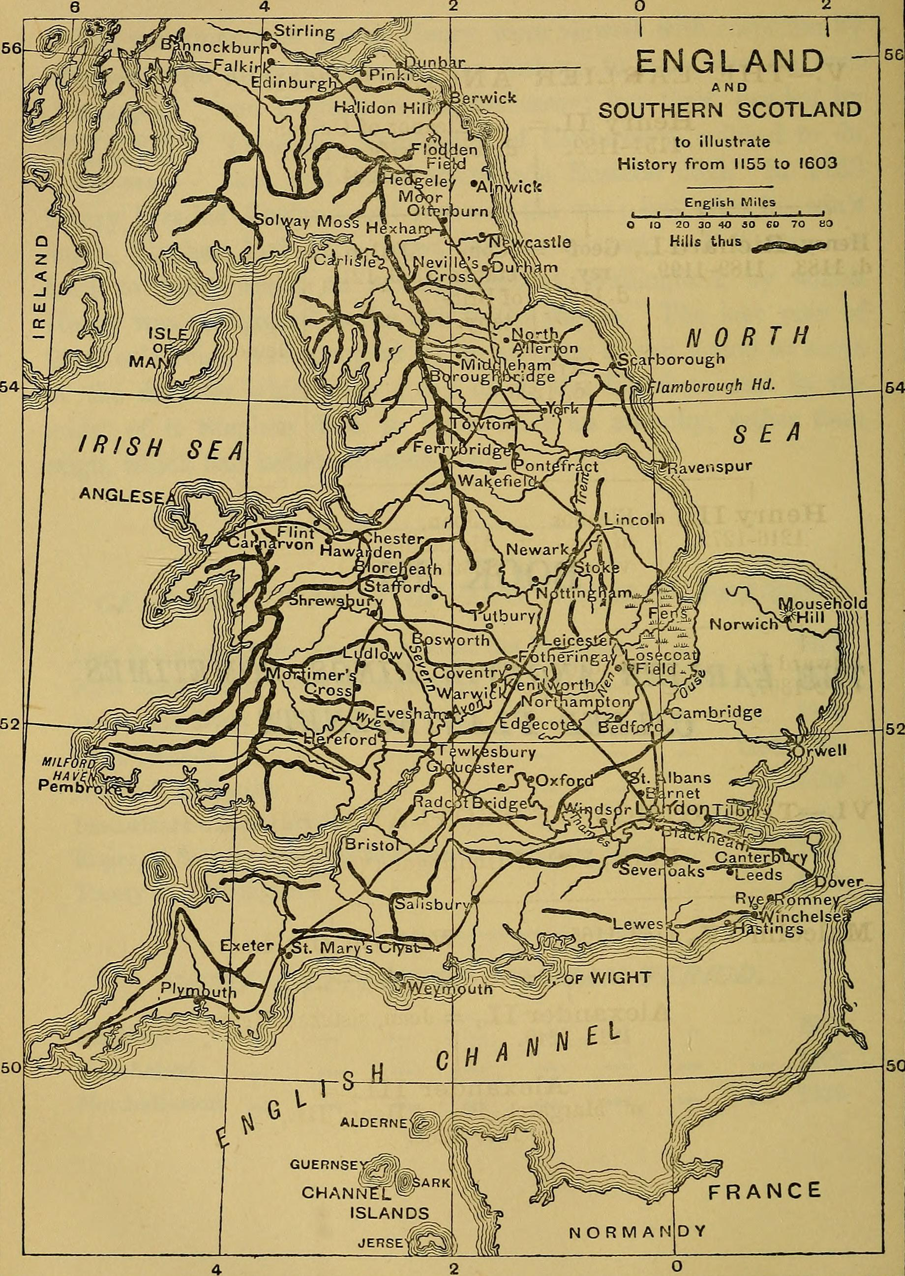 England and Southern Scotland to illustrate History from 1155 to 1603